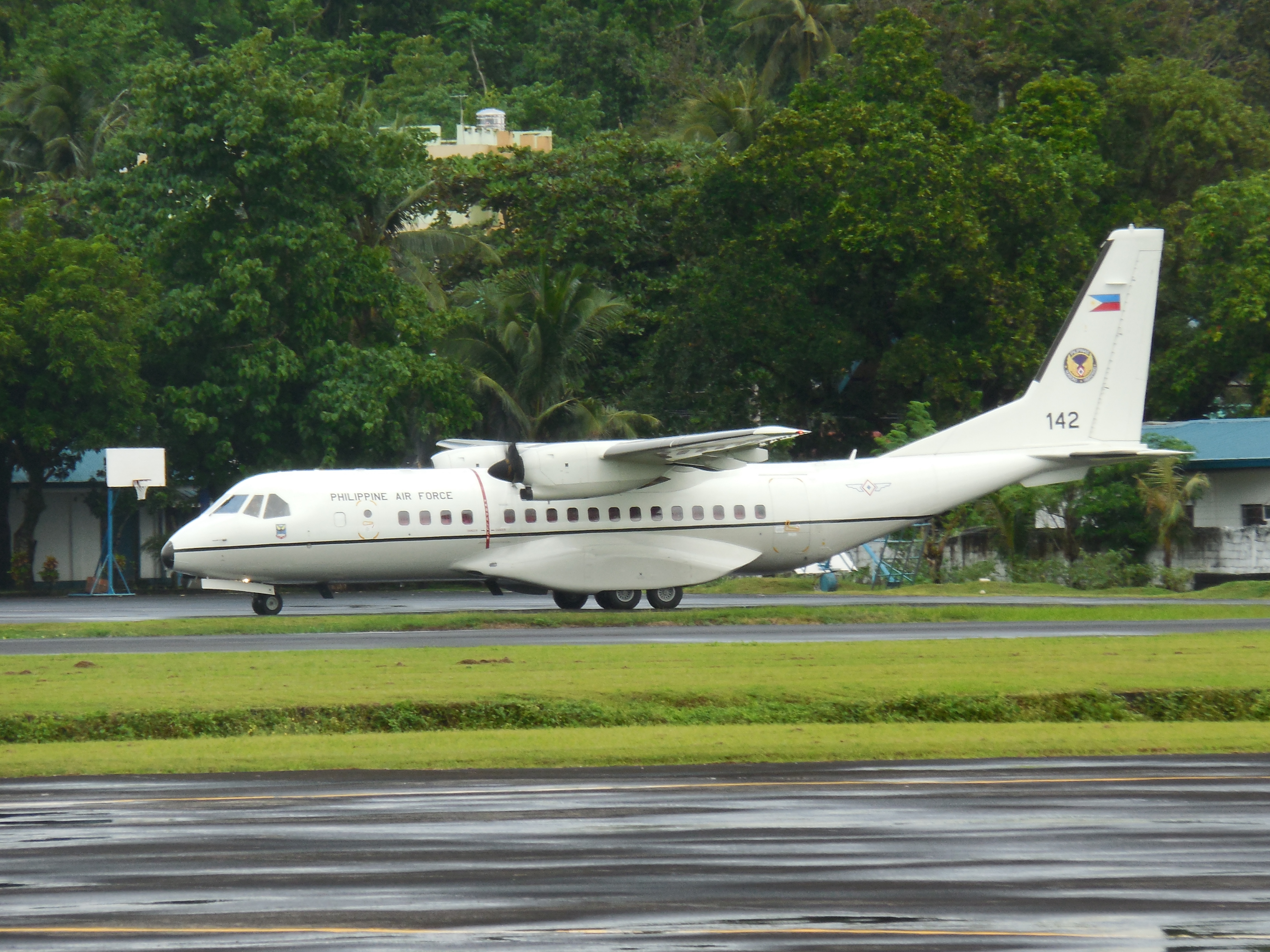 A Philippine Air Force C-295M as it taxis after landing at the Legazpi Airport in Legazpi City, Albay. The aircraft is assigned to the Tactical Operations Group 5 of the Philippine Air Force.